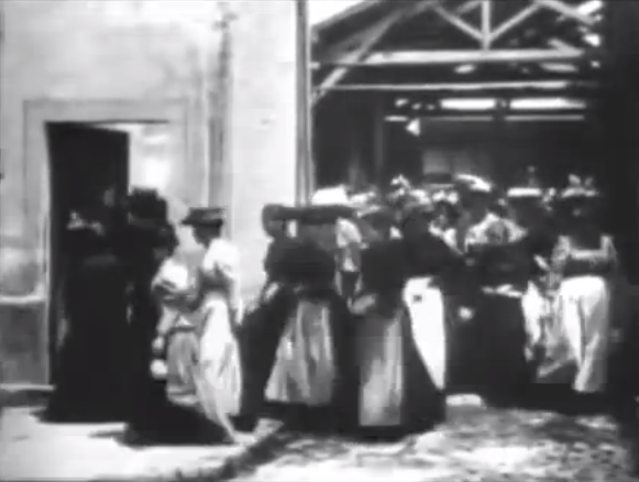 La Sortie de l'Usine Lumière à Lyon, from the movie by brothers Lumière, 1895